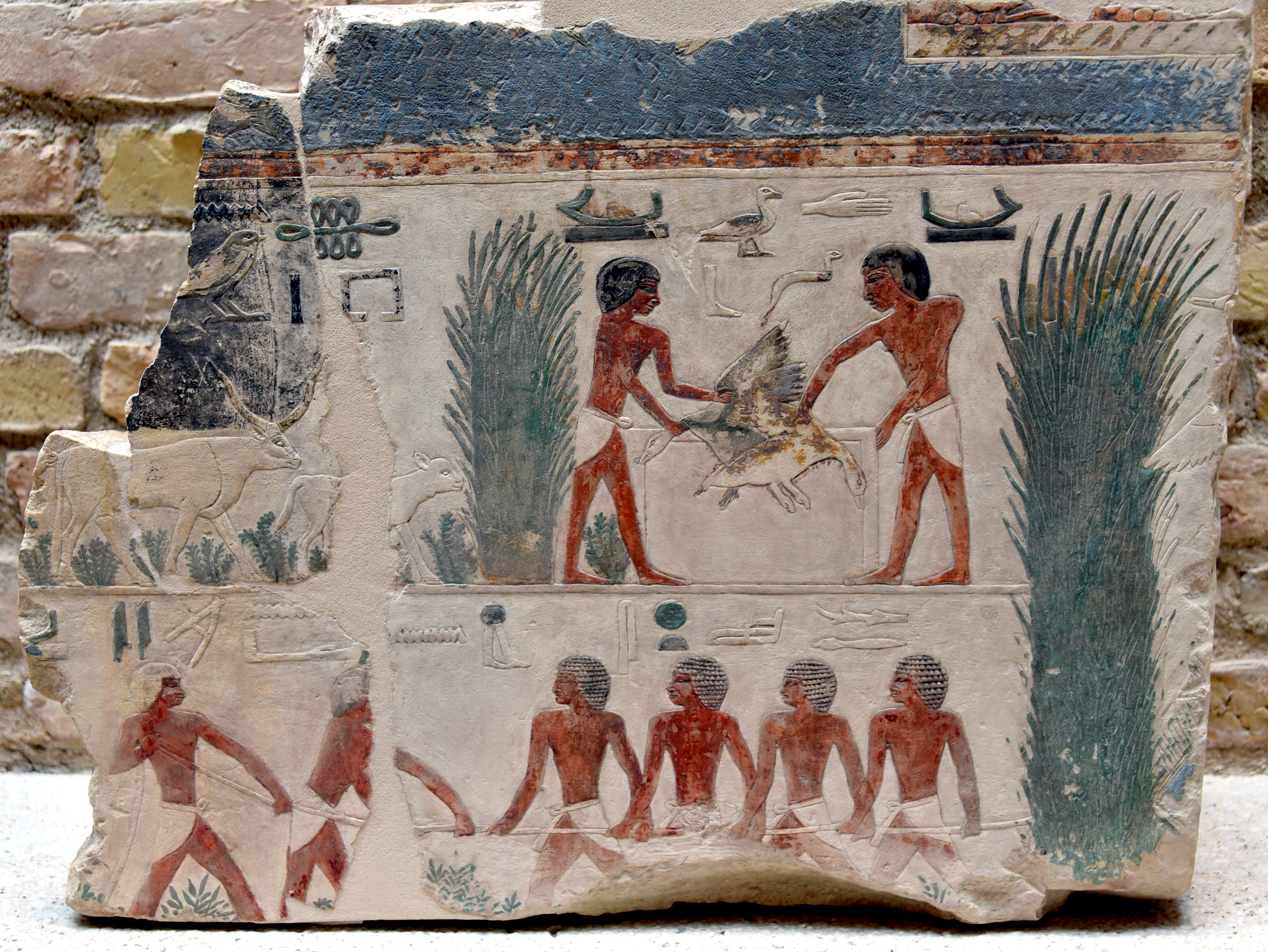 Fowling with a dragnet, agricultural scene, and handling ducks. Limestone, painted. Wall fragment from the Sun Temple of Nyuserre Ini at Abu Gorab, Egypt. Old Kingdom, 5th Dynasty, c. 2430 BCE. Neues Museum, Berlin, Germany.